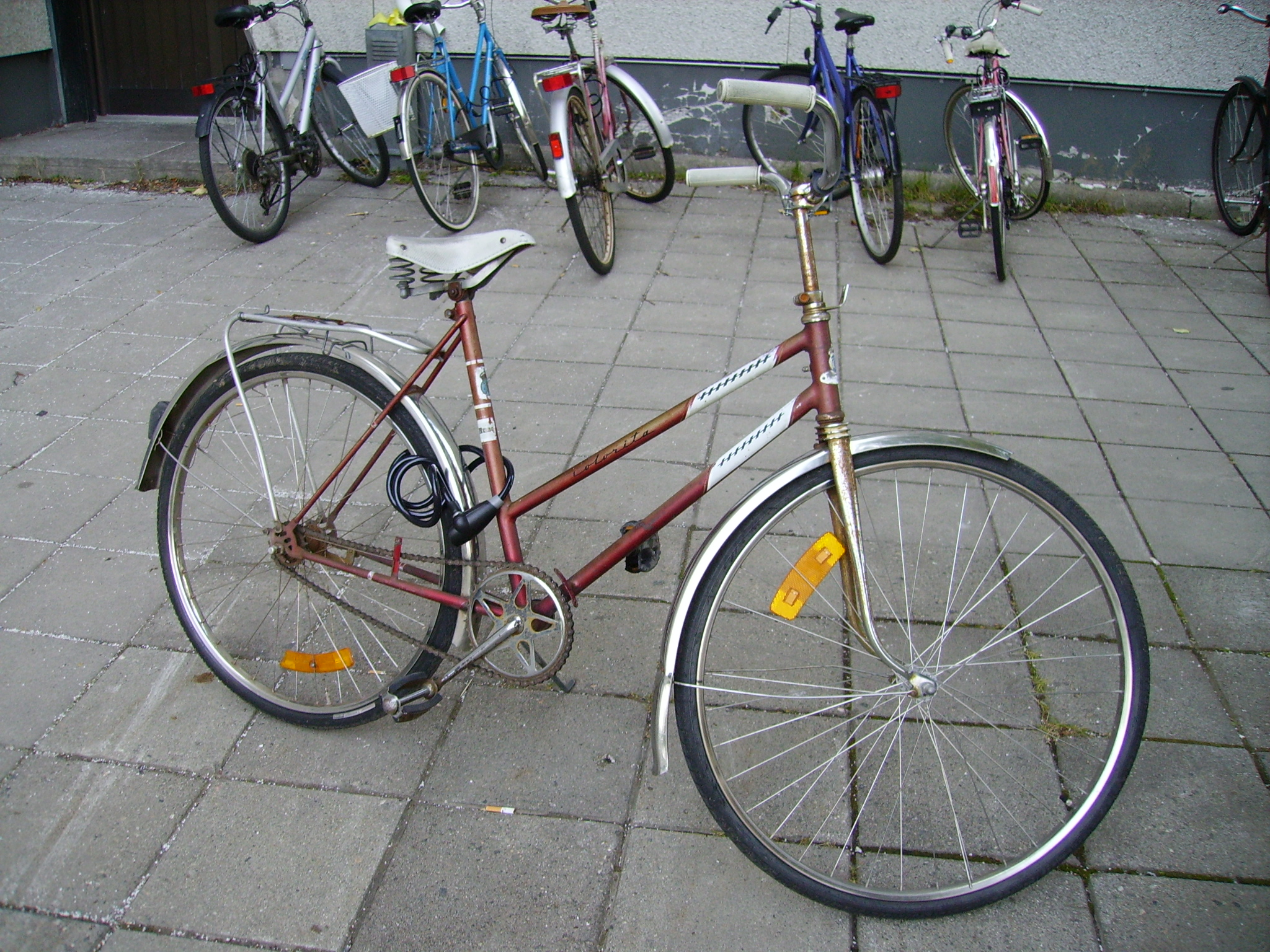 colorita bike